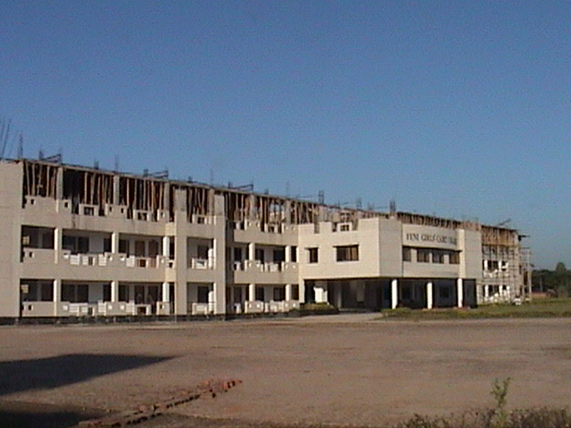 A View of the Academic Block